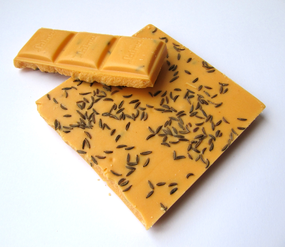 Carotene-colored white chocolate with whole caraway seeds of the "Laima" company from Riga, Latvia (2015).